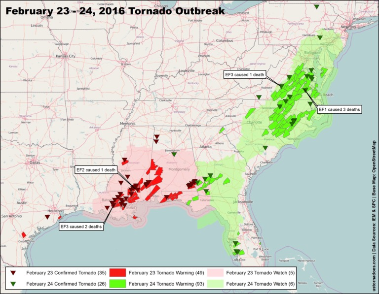 Map showing the watches and warnings issued during the tornado outbreak of February 23–24, 2016, as well as the amount of tornadoes confirmed during the event.